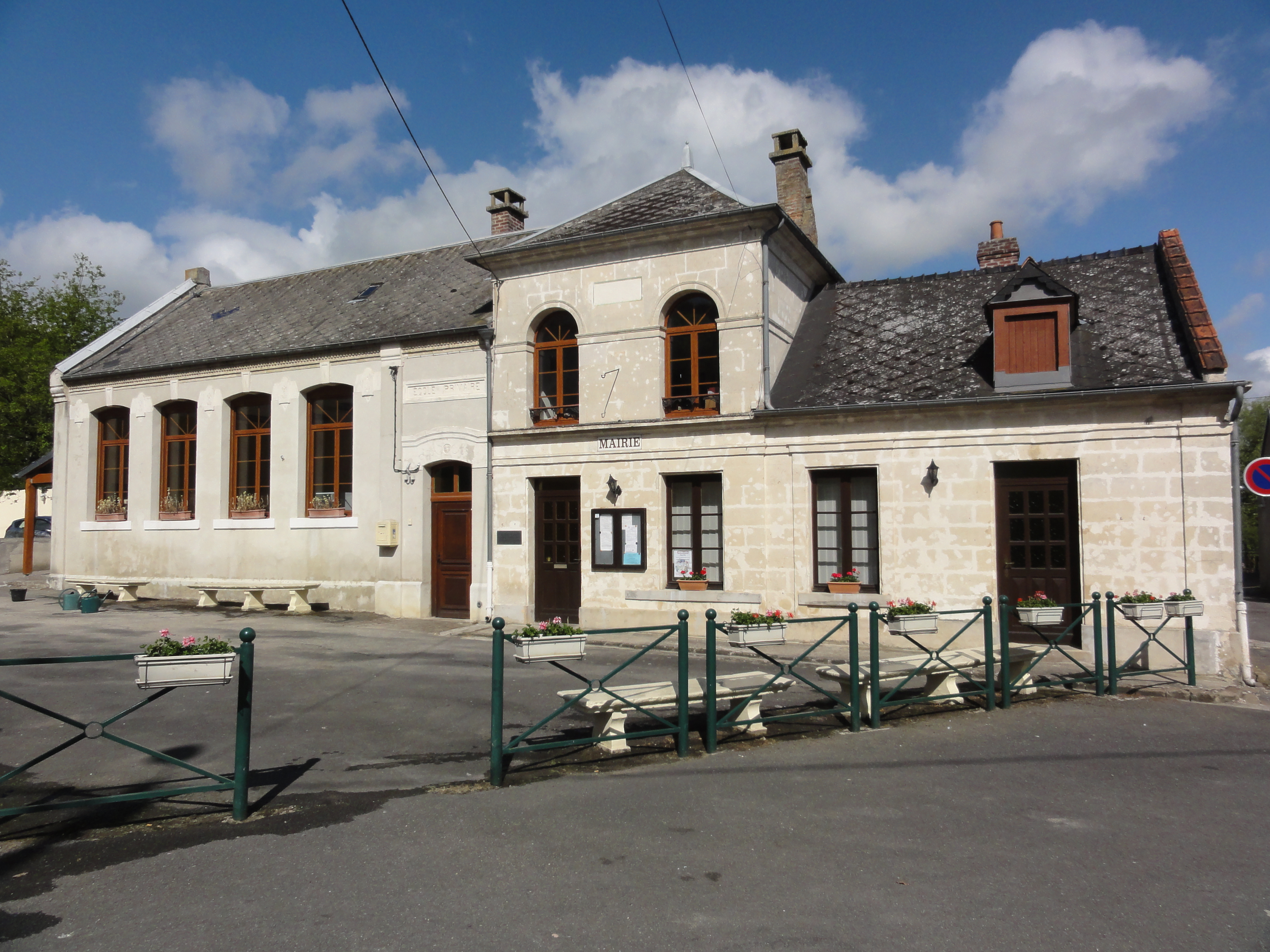 Laniscourt (Aisne) école et mairie